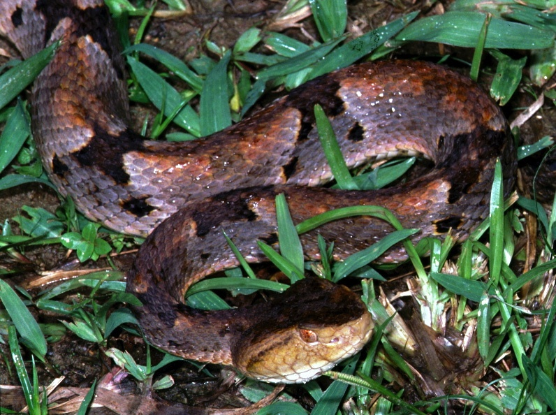 Cacao, Guyane, FRANCE Scanned slide from 2001